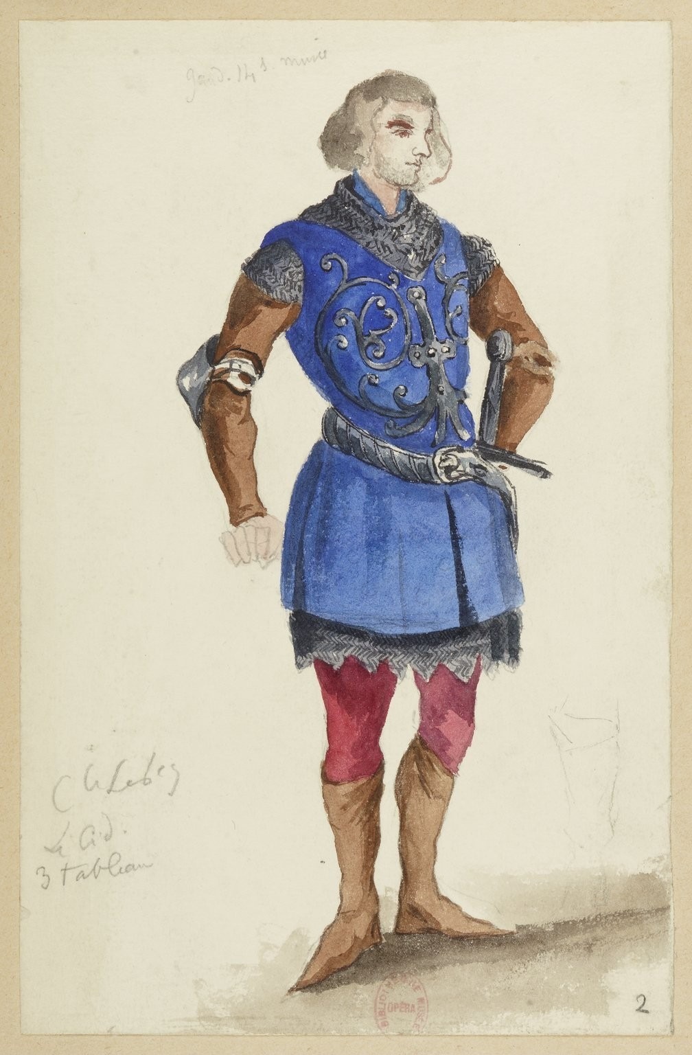 Massenet - Le Cid - Costume sketches by Lepic - 02 Rodrigues 2